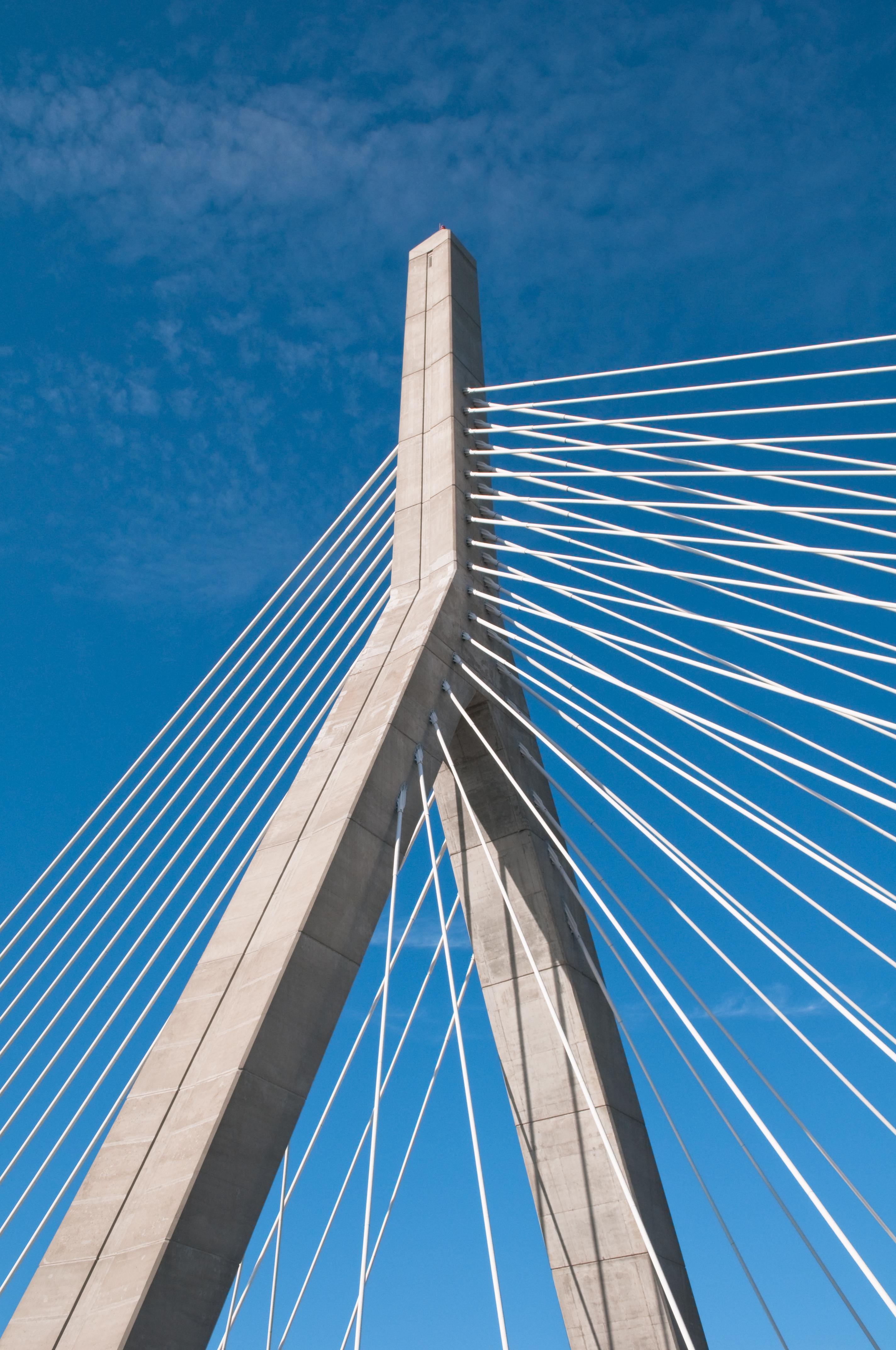 Zakim Bunker Hill Bridge in Boston, MA, USA